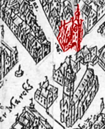 The town hall of Munich (today's Old Town Hall) in 1613 as a detail of Tobias Volckmer's city map